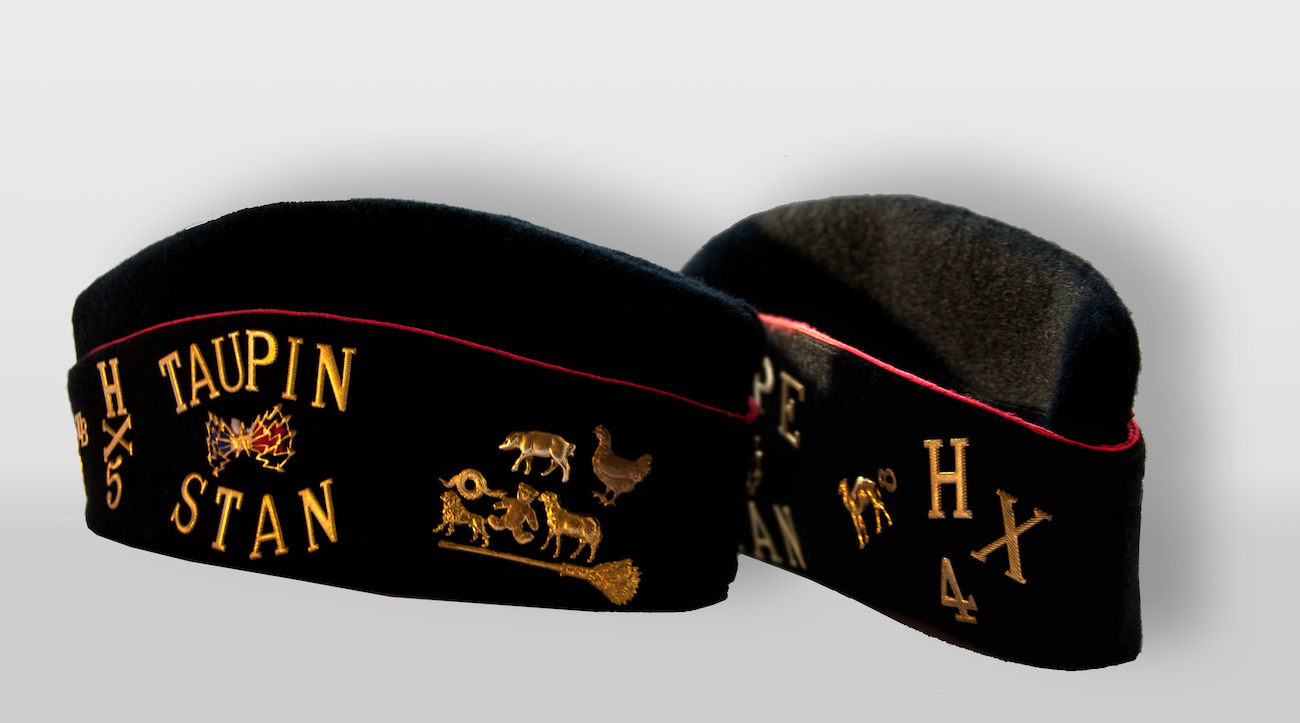 French preparatory classes "Khalot" from Stanislas Paris